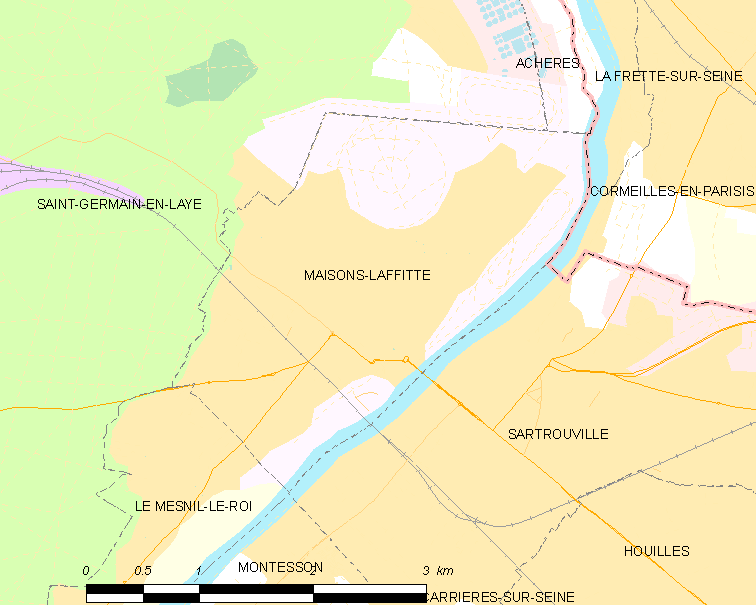 Map of French municipality Maisons-Laffitte